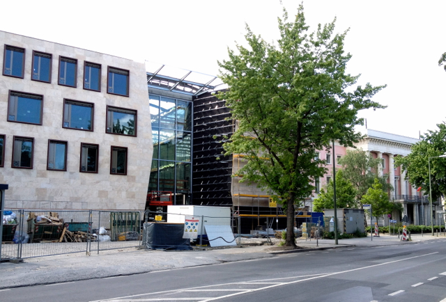 The new Turkish embassy in Berlin